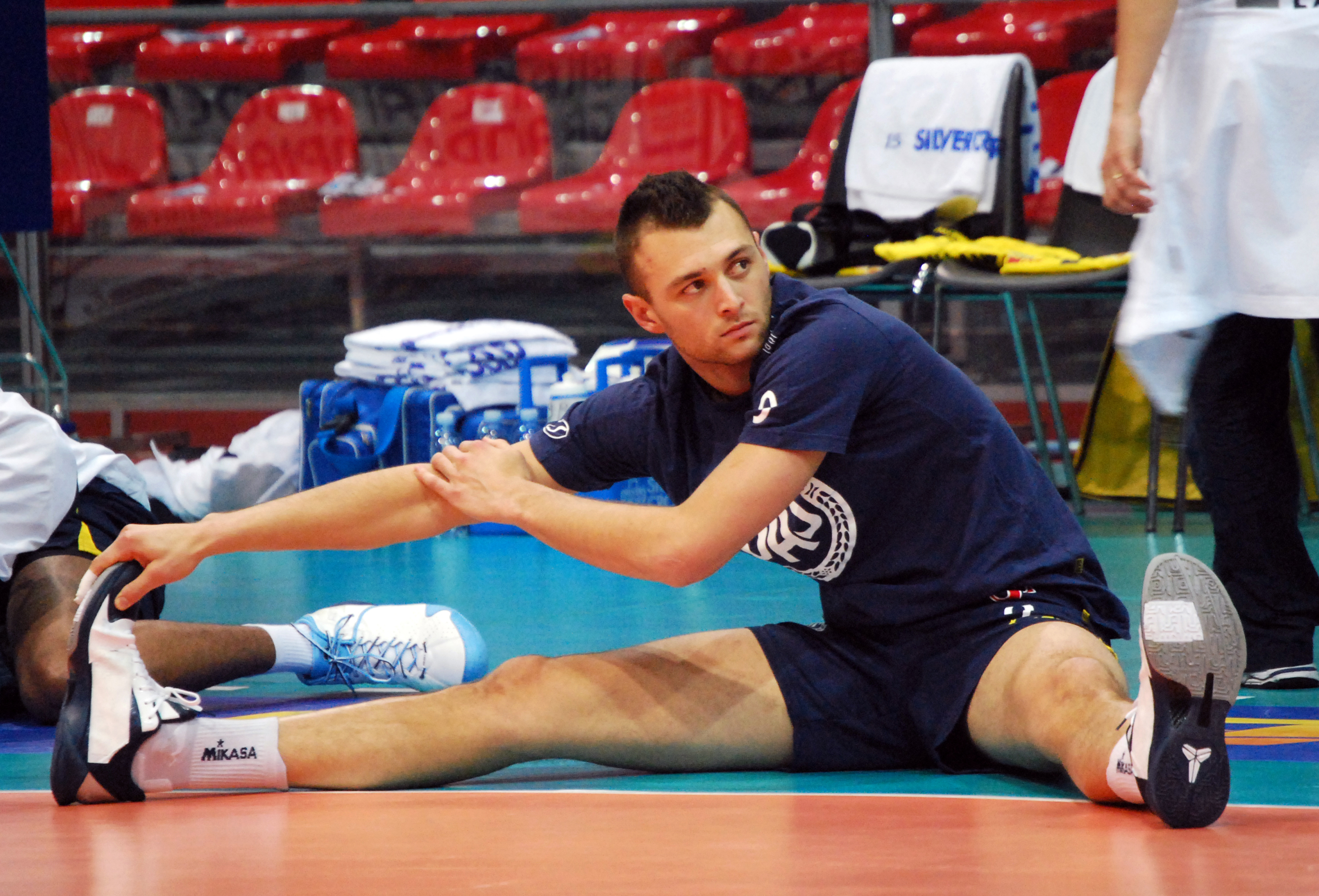 I took this pic during a volleyball match in Piacenza.